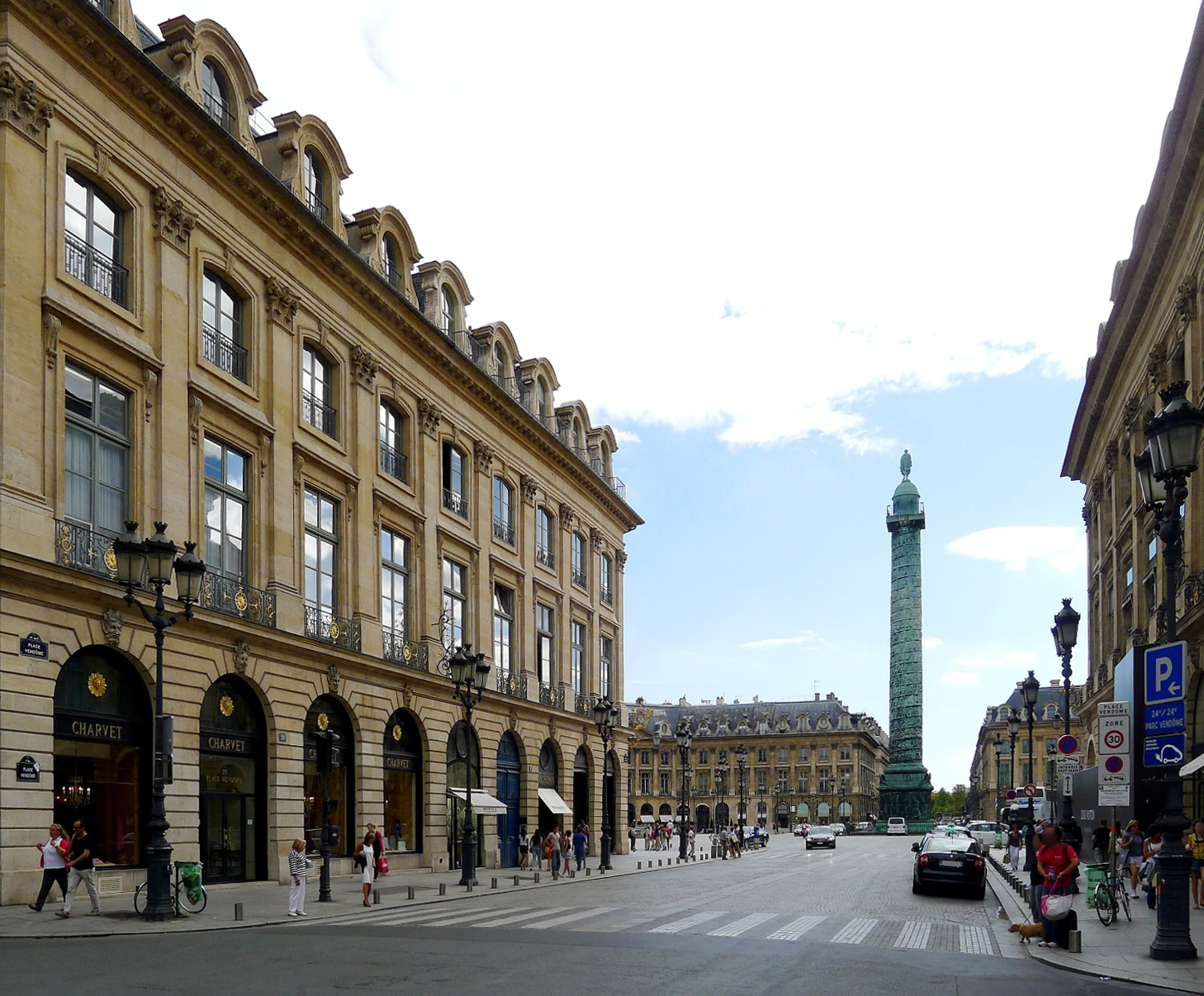 Paix street and Vendôme place - Paris